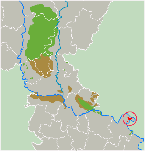 LEGEND: Green - Sands, Red - Selected Sand, Brown - Loess. Српски (ћирилица): Мапа је због потребе приказивања садржаја мала и није у потпуности прецизна. Употребљени извори су педолошке карте и мапе заштићених подручја Завода за заштиту природе, као и рад др Млађена Јовановића Пешчаре у Србији 2014, Природно-математички факултет Универзитета у Новом Саду.